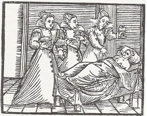 Wood Engraving 21 from the Compendium Maleficarum